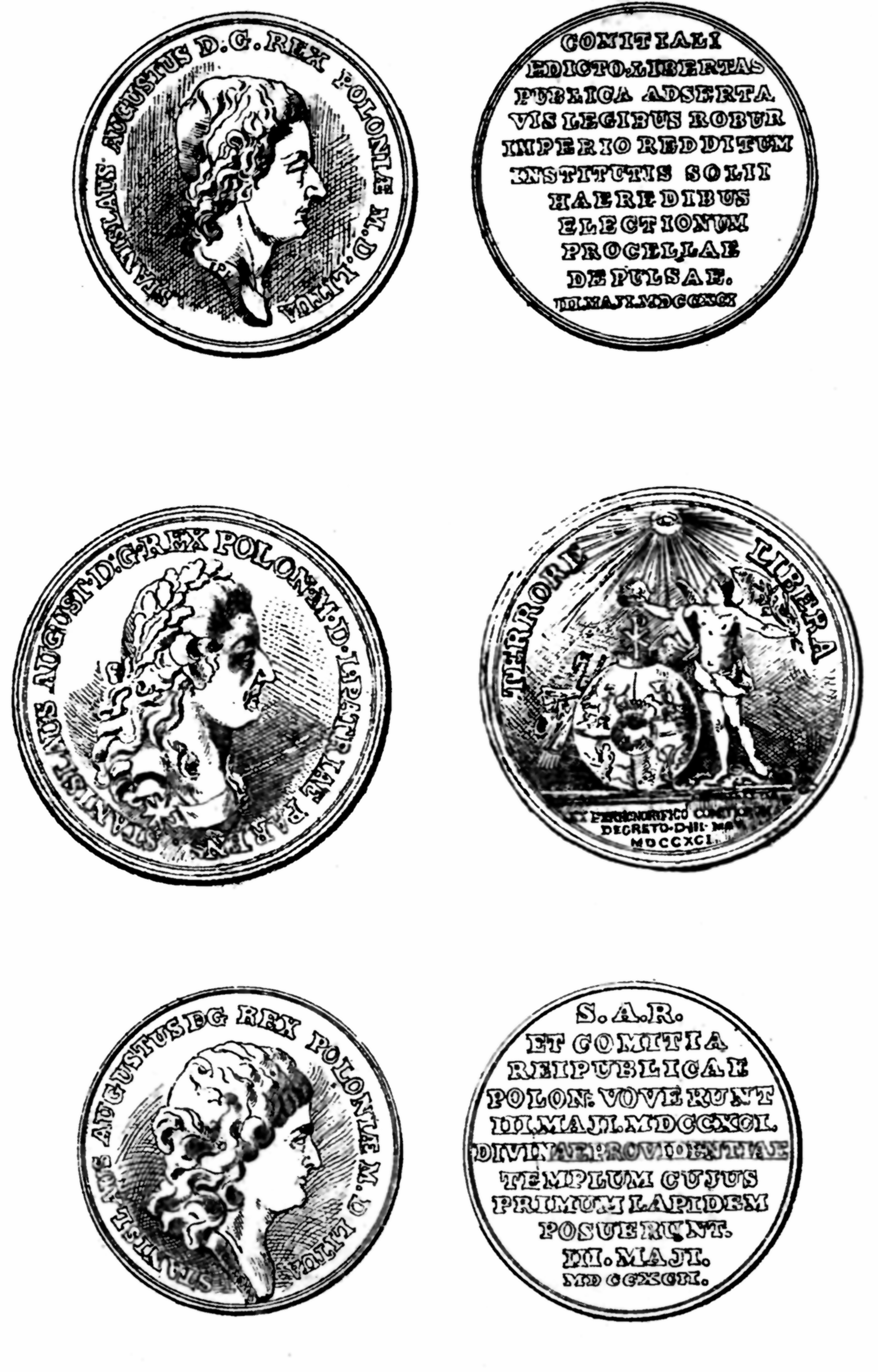 Medals commemorating Constitution of the 3rd May 1791